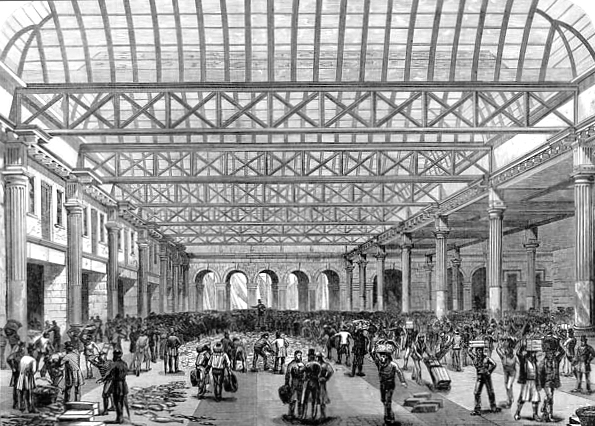 The interior of Billingsgate Fish Market in 1876. The Illustrated London News.